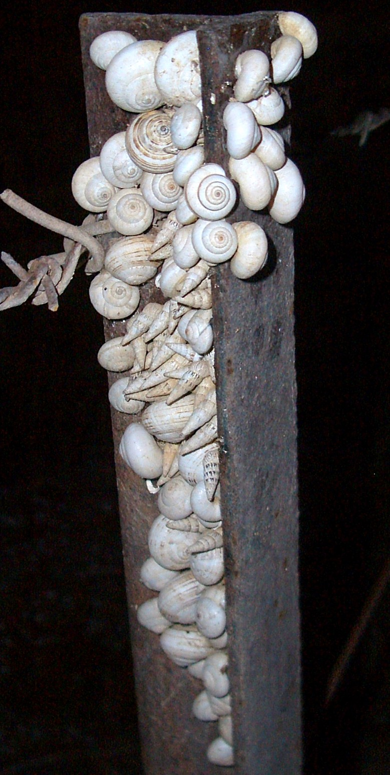 In Kadina, South Australia, two introduced species of snails (the large ones are Theba pisana and the small long pointed ones are Cochlicella acuta) aestivate at the top of fence posts.